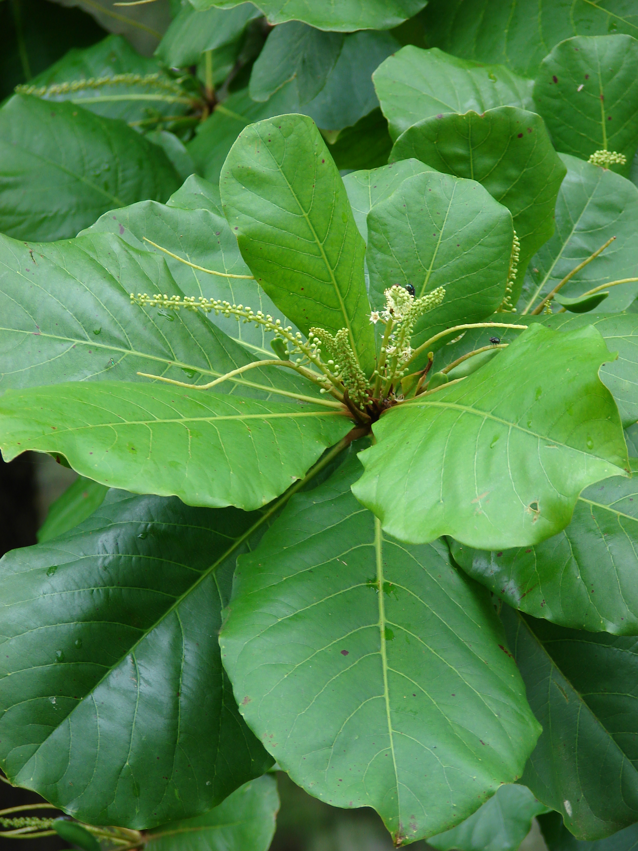 Terminalia catappa (flowers and leaves). Location: Midway Atoll, Internet cafe Peters Ave Sand Island